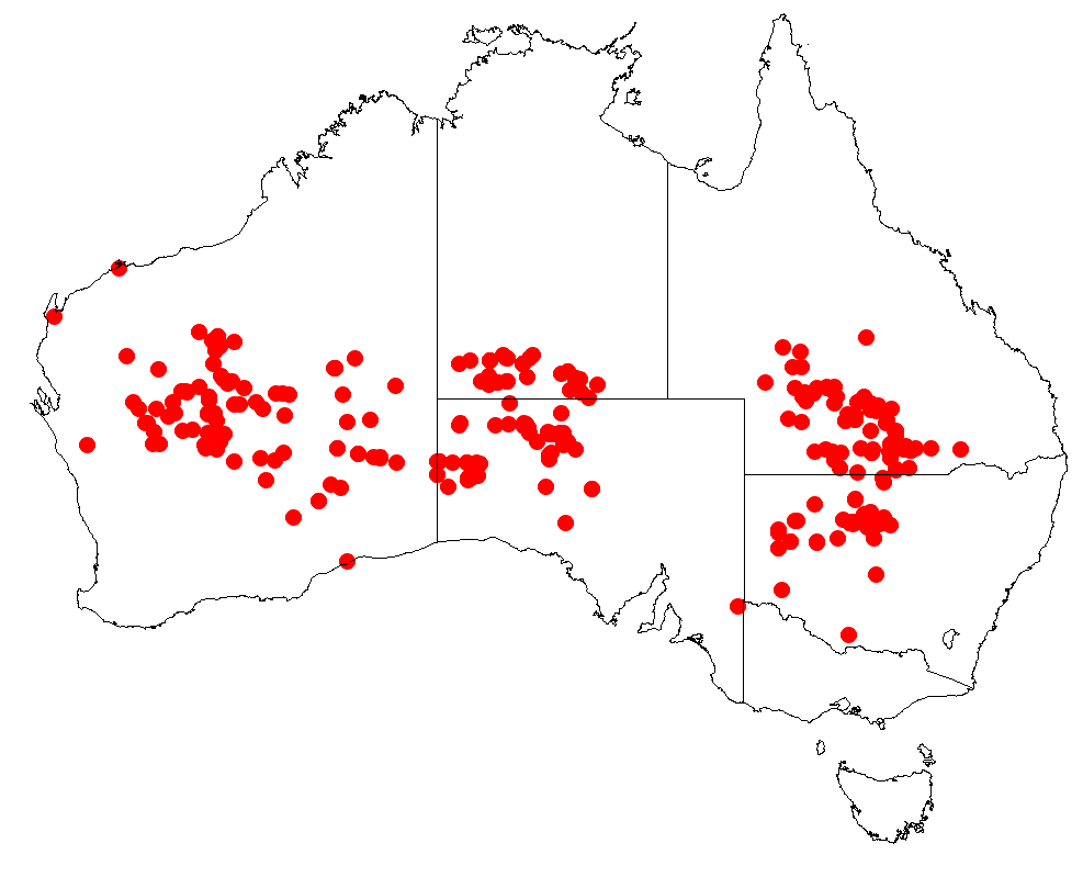 Velleia glabrata Occurrence data downloaded from Australasian Virtual Herbarium}AVH on 10 September 2018